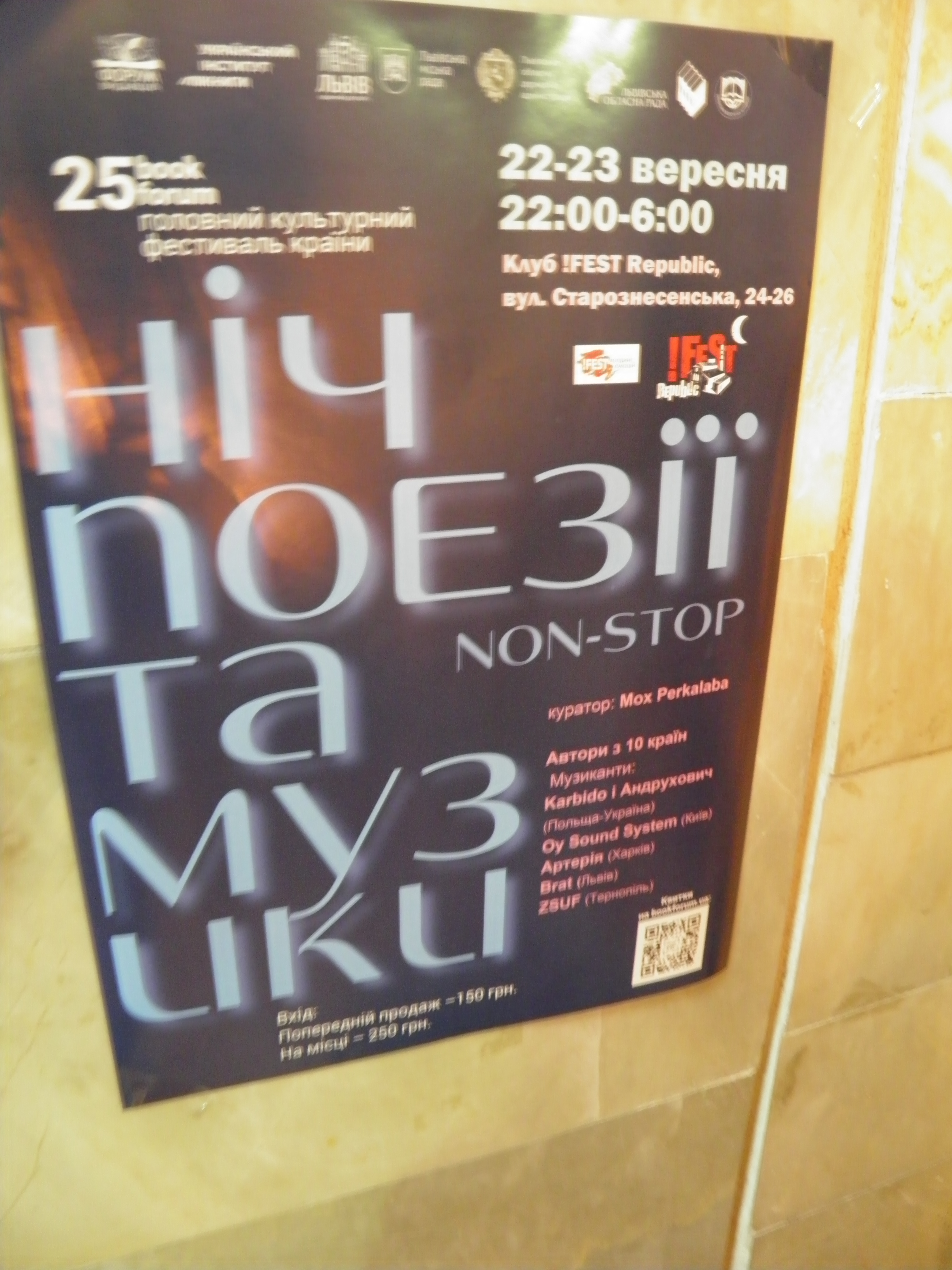 Publishers' Forum in Lviv 2018